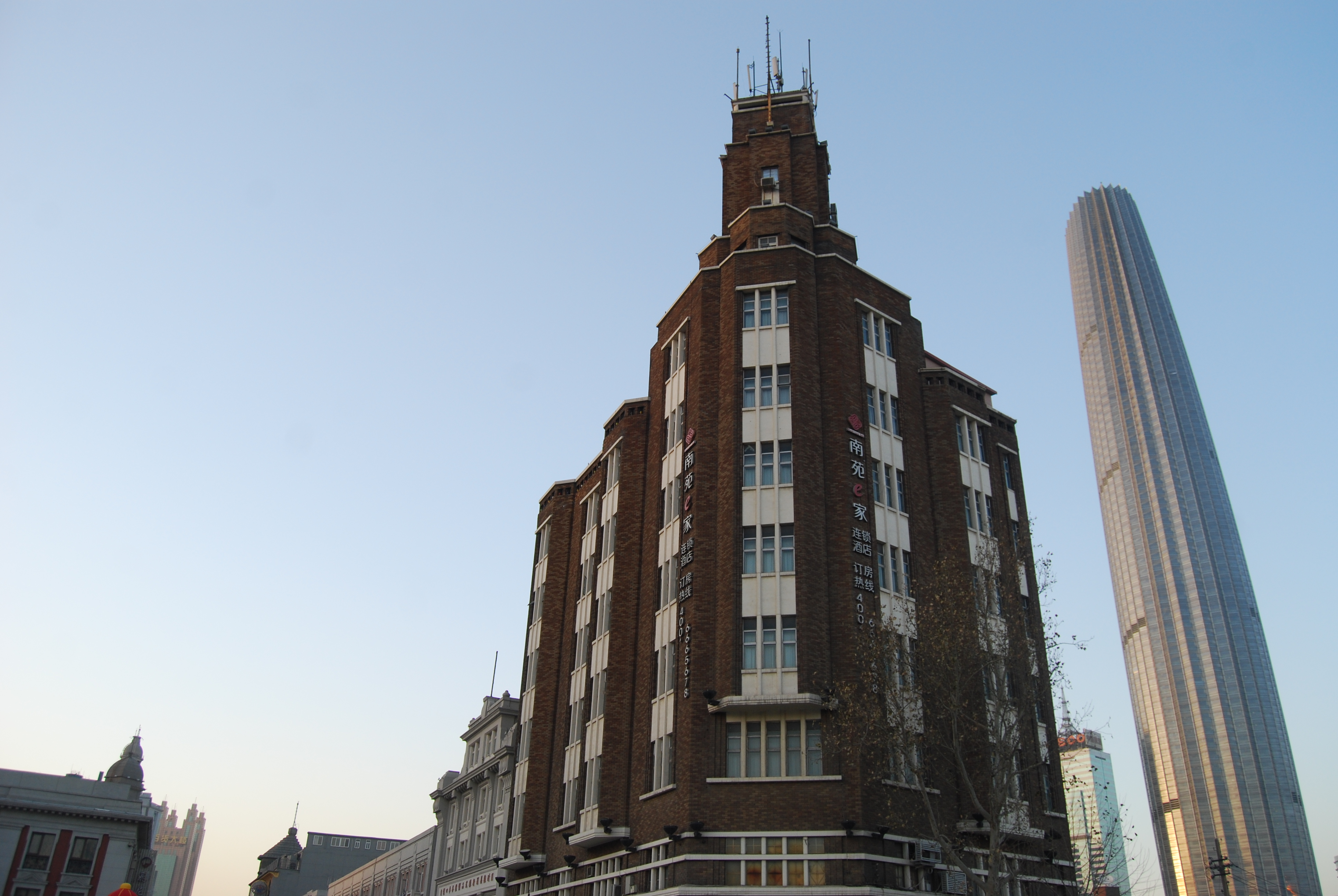 BoHai Building, Heping Lu No. 275–281, Heping District, Tianjin